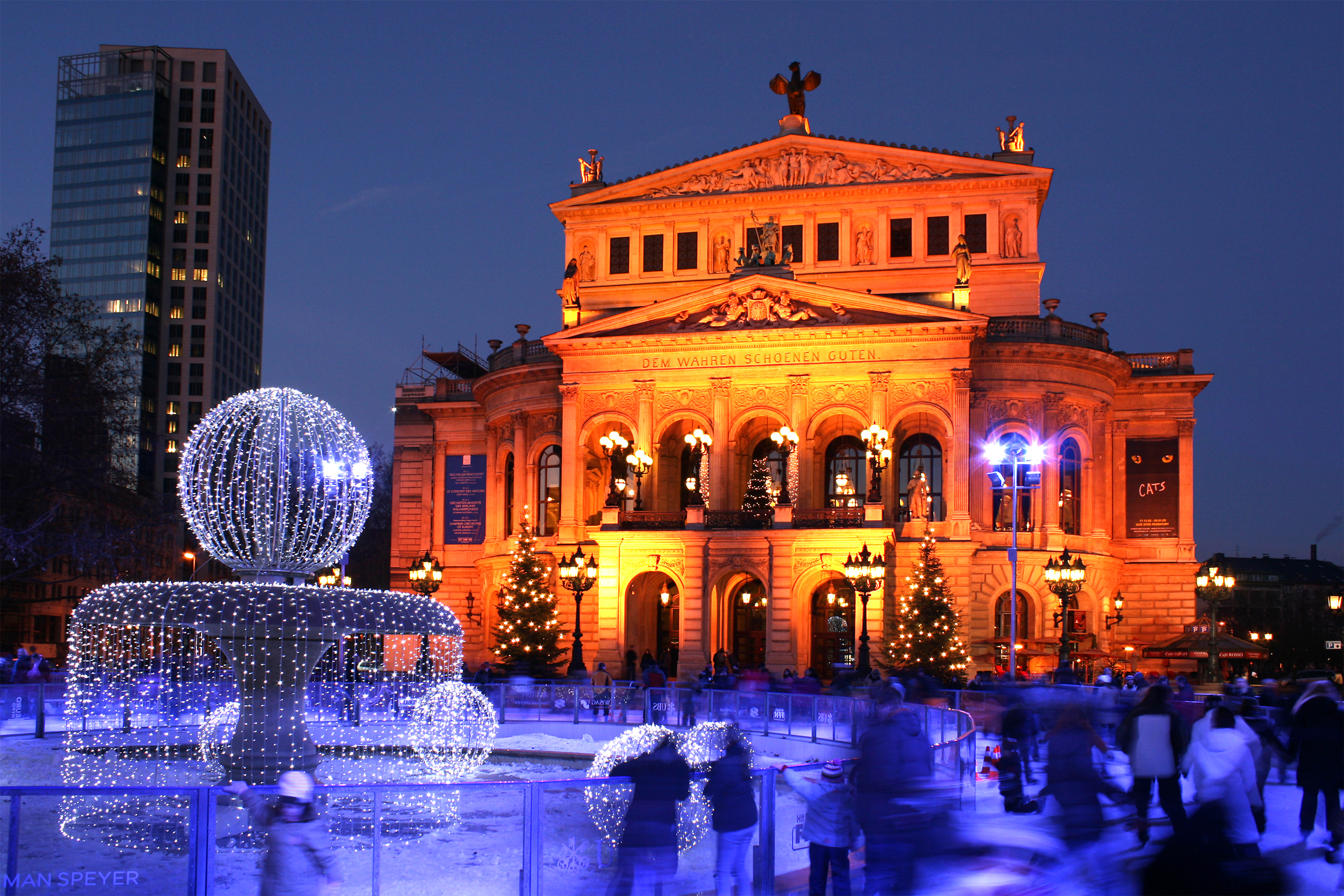 Old Opera in Frankfurt am Main, Germany during the event "Opernplatz on Ice".